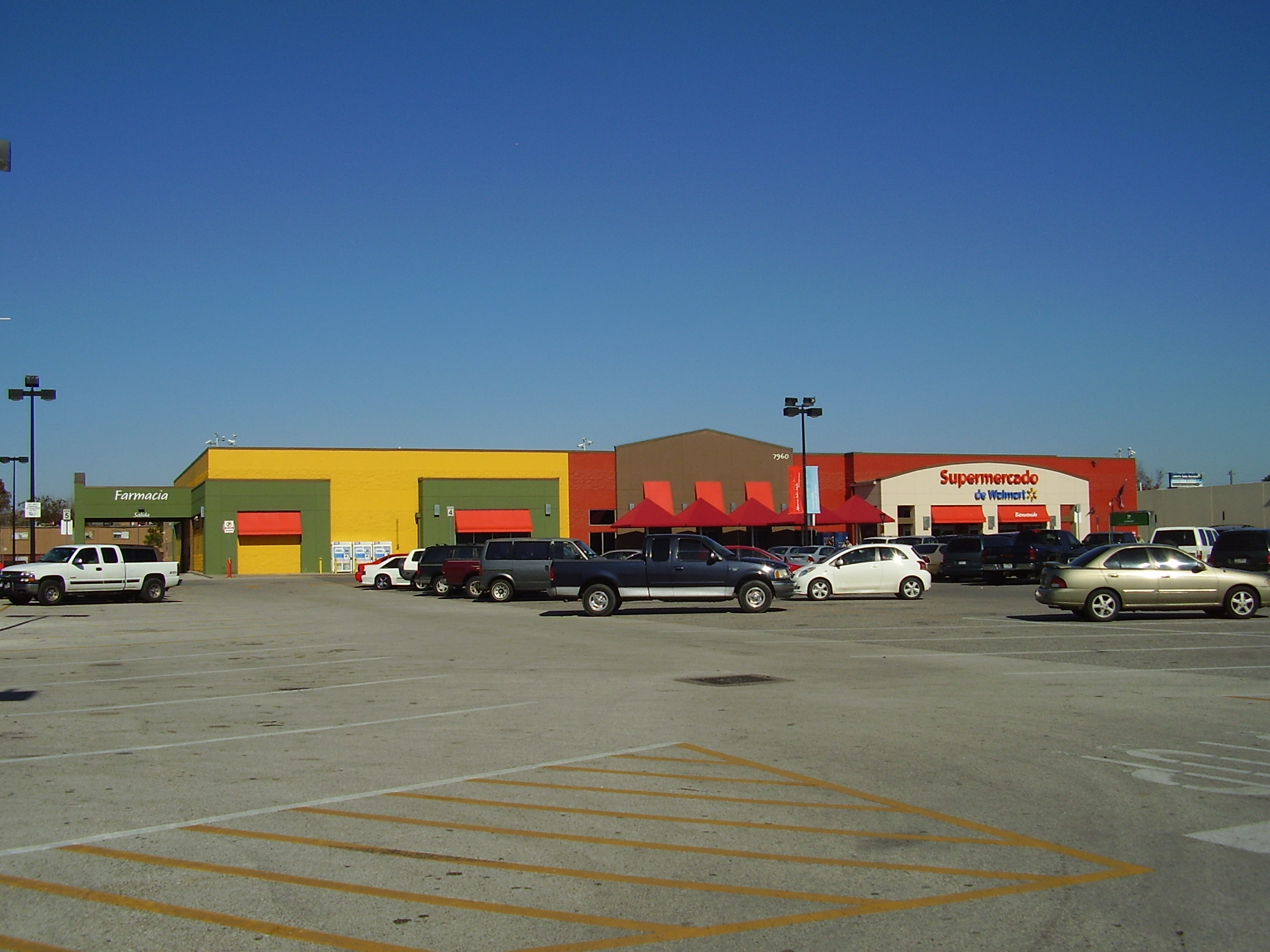 Supermercado de Wal-Mart (meaning "Wal-Mart Supermarket") in Spring Branch, Houston - Neighborhood Market Store #3578 - 7960 Long Point Road at Wirt, Houston, TX 77055